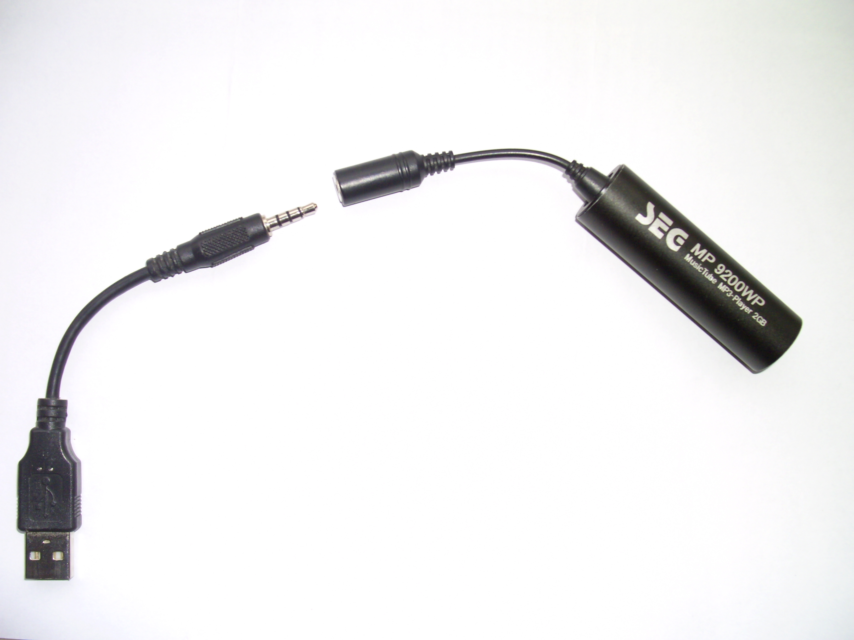 TRRS to USB adapter from SEG MP3-Player MP 9200WP